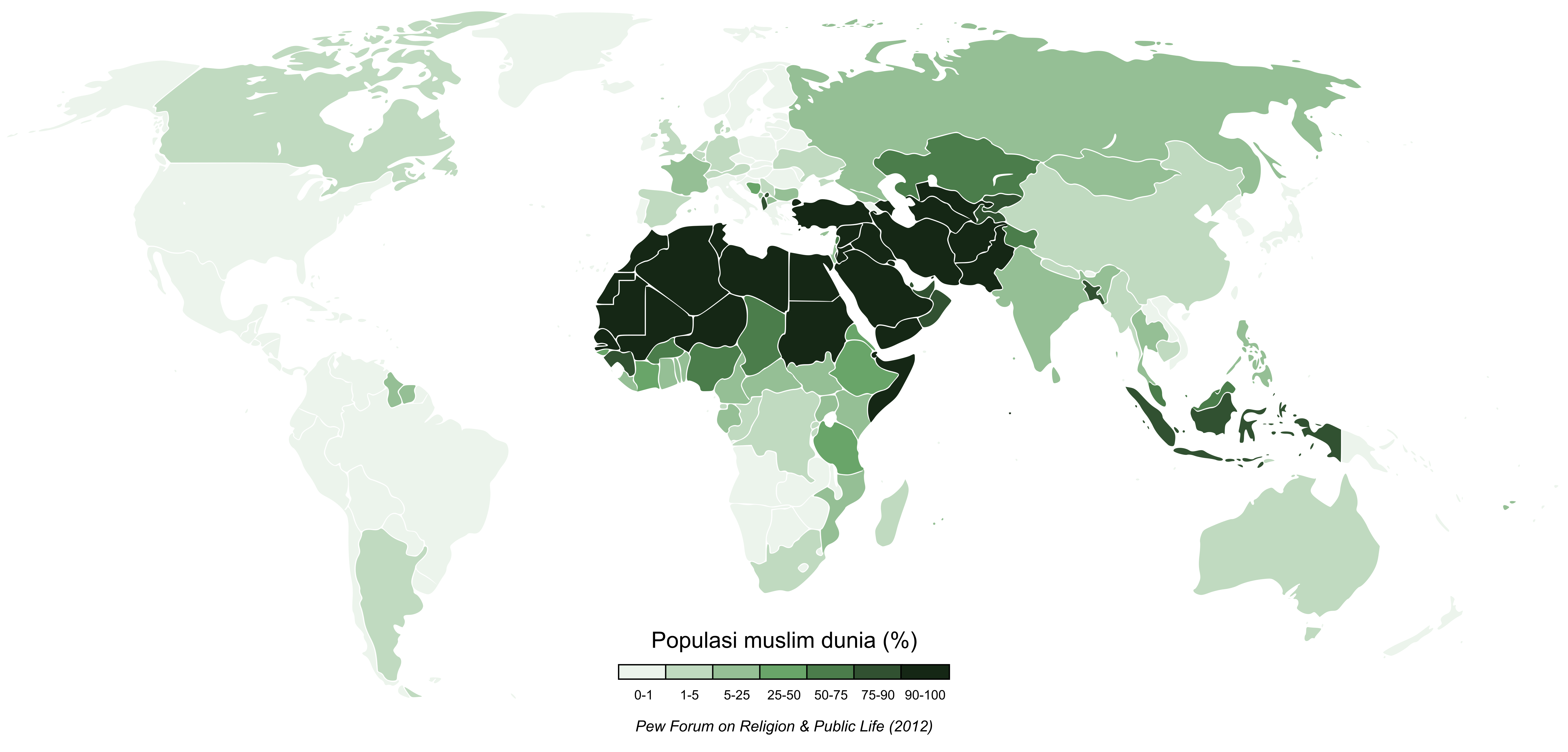 2012 world Muslim population map from Pew Research Center